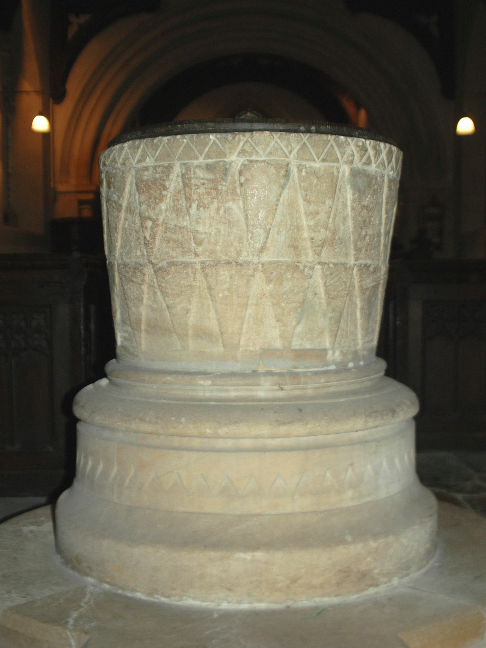 Baptismal font of the Church of England parish church of St Mary, Glympton, Oxfordshire